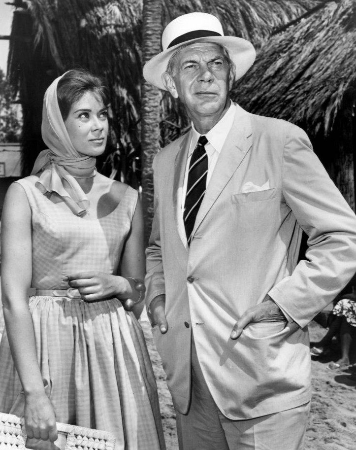 Photo of actress Antoinette Bower and actor Raymond Massey as guest stars on the television program Adventures in Paradise.